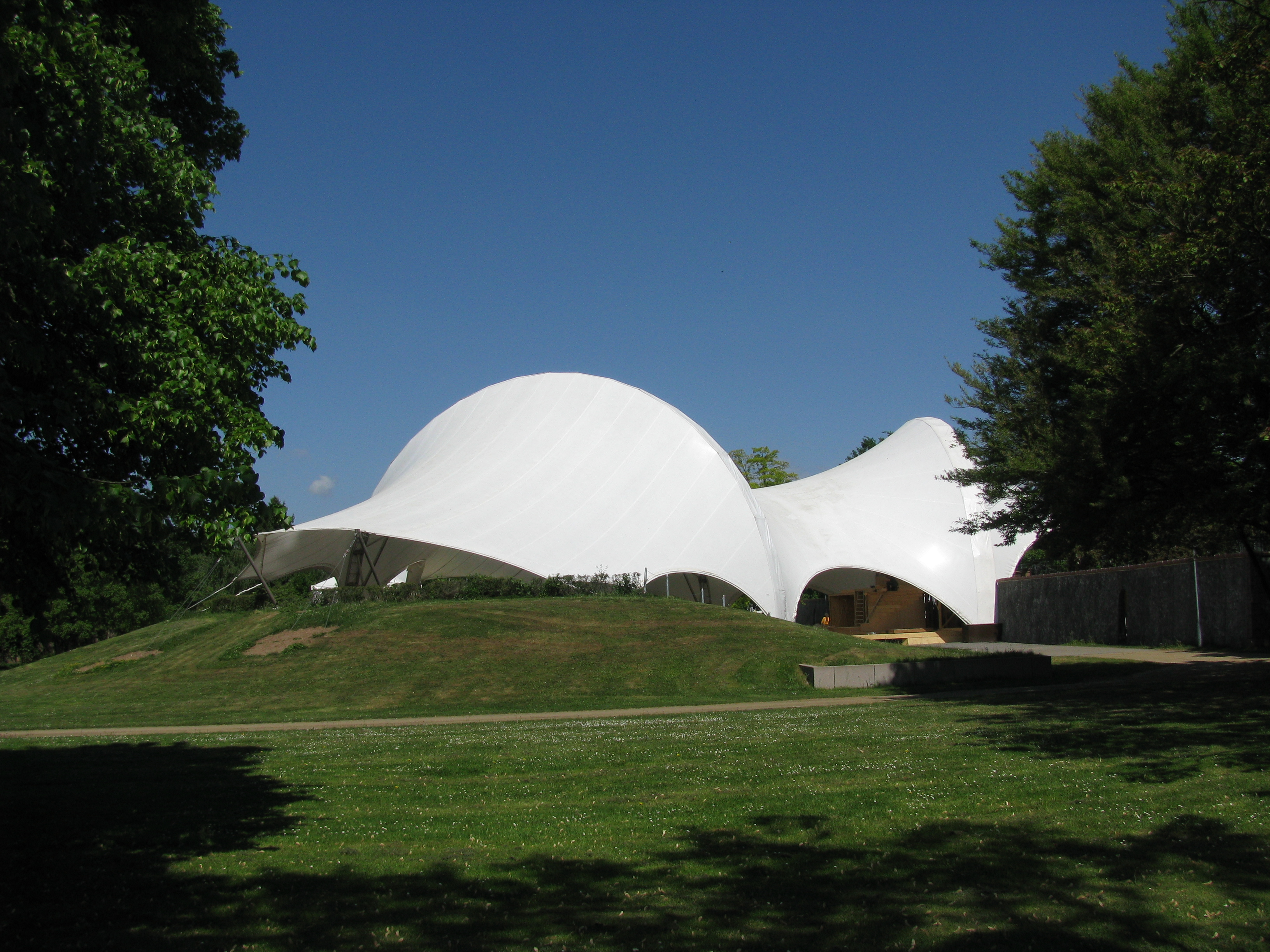 Dome tent in Amphitheater Hanau